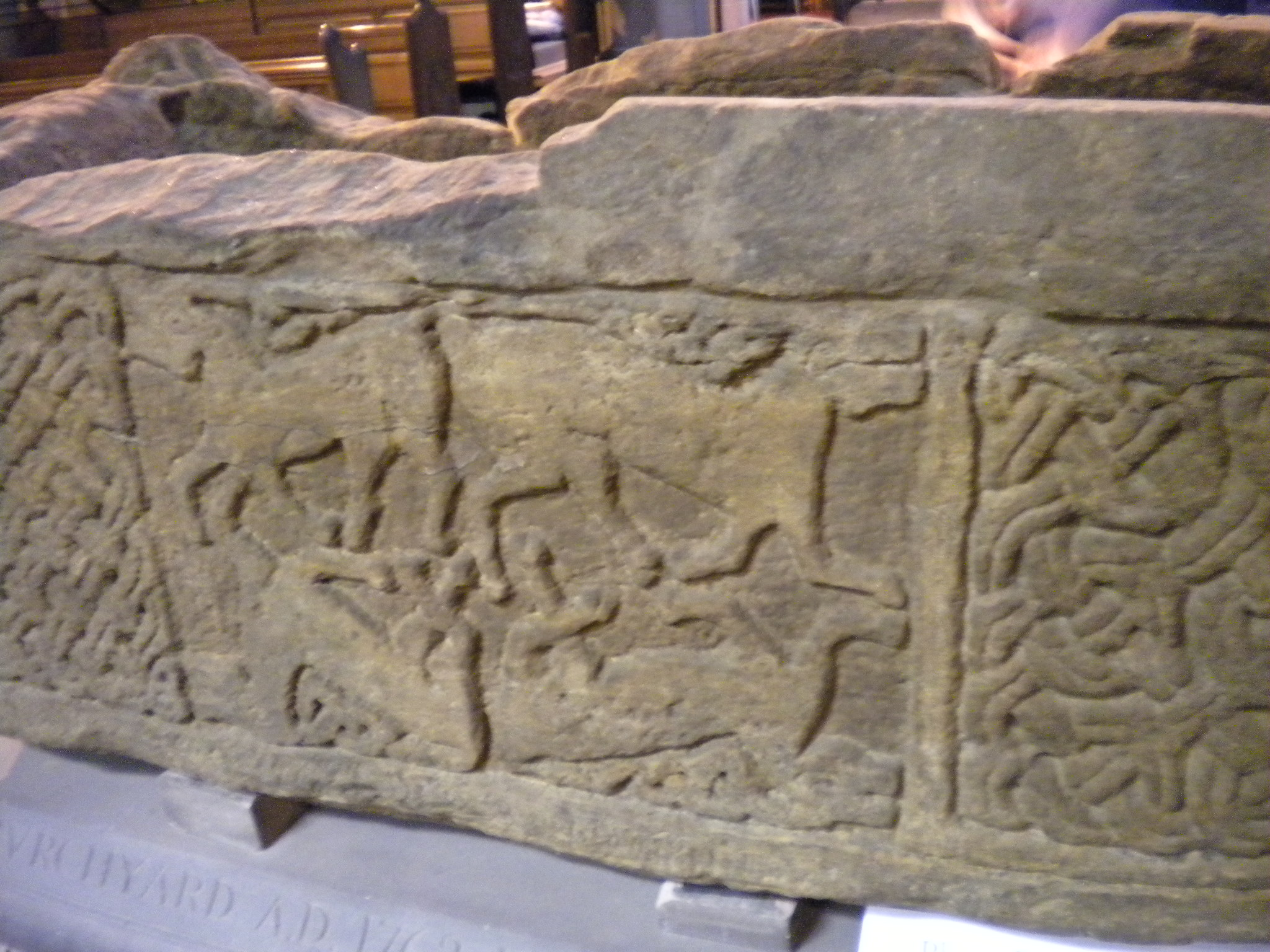 This is one of 31 carved stones in Govan Old Church, Glasgow. It is part of one side of the sarcophagus.